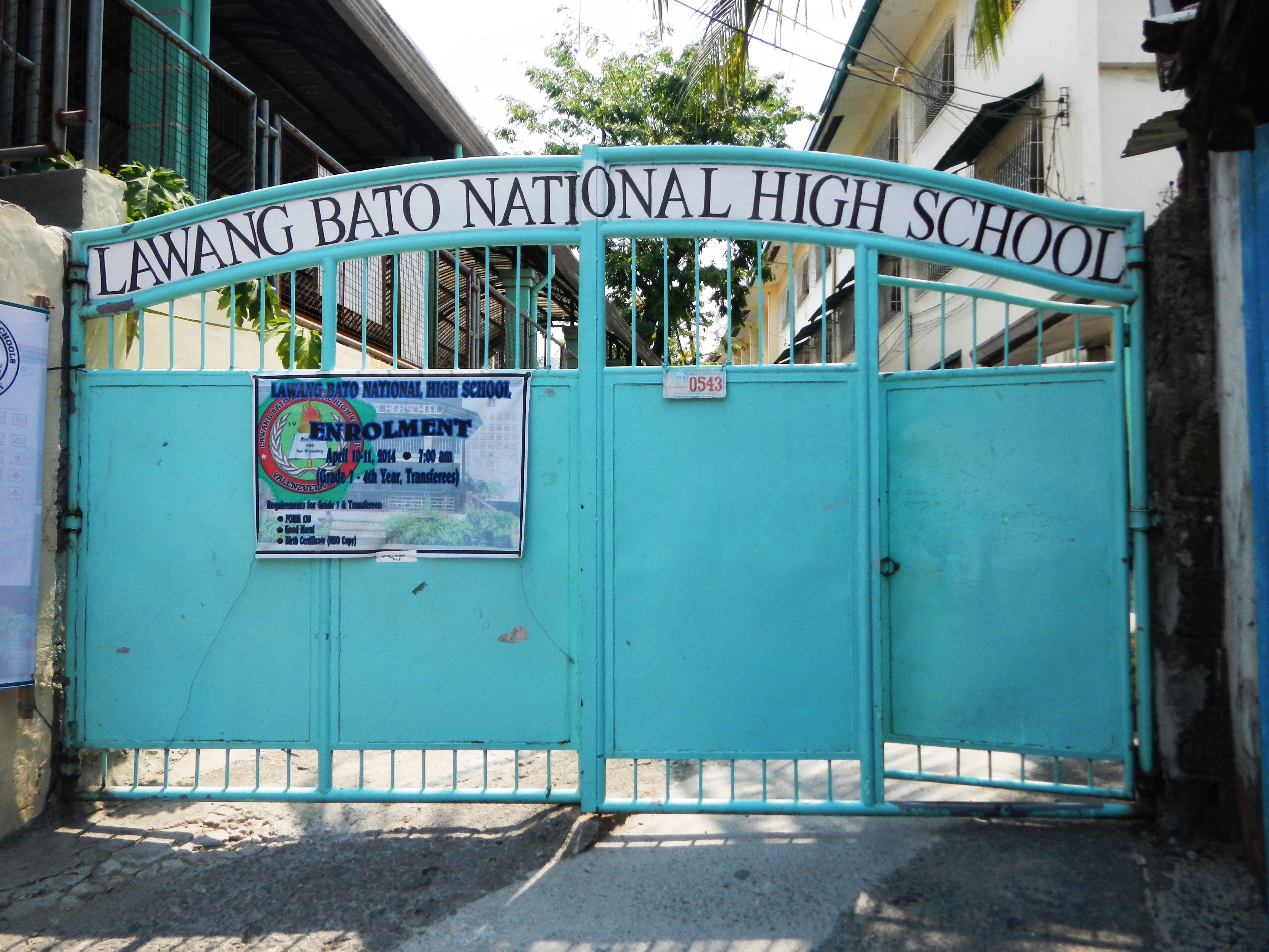 Lawang Bato National High School Centro St., Lawang Bato, Valenzuela City; only solar powered library in Metro Manila.